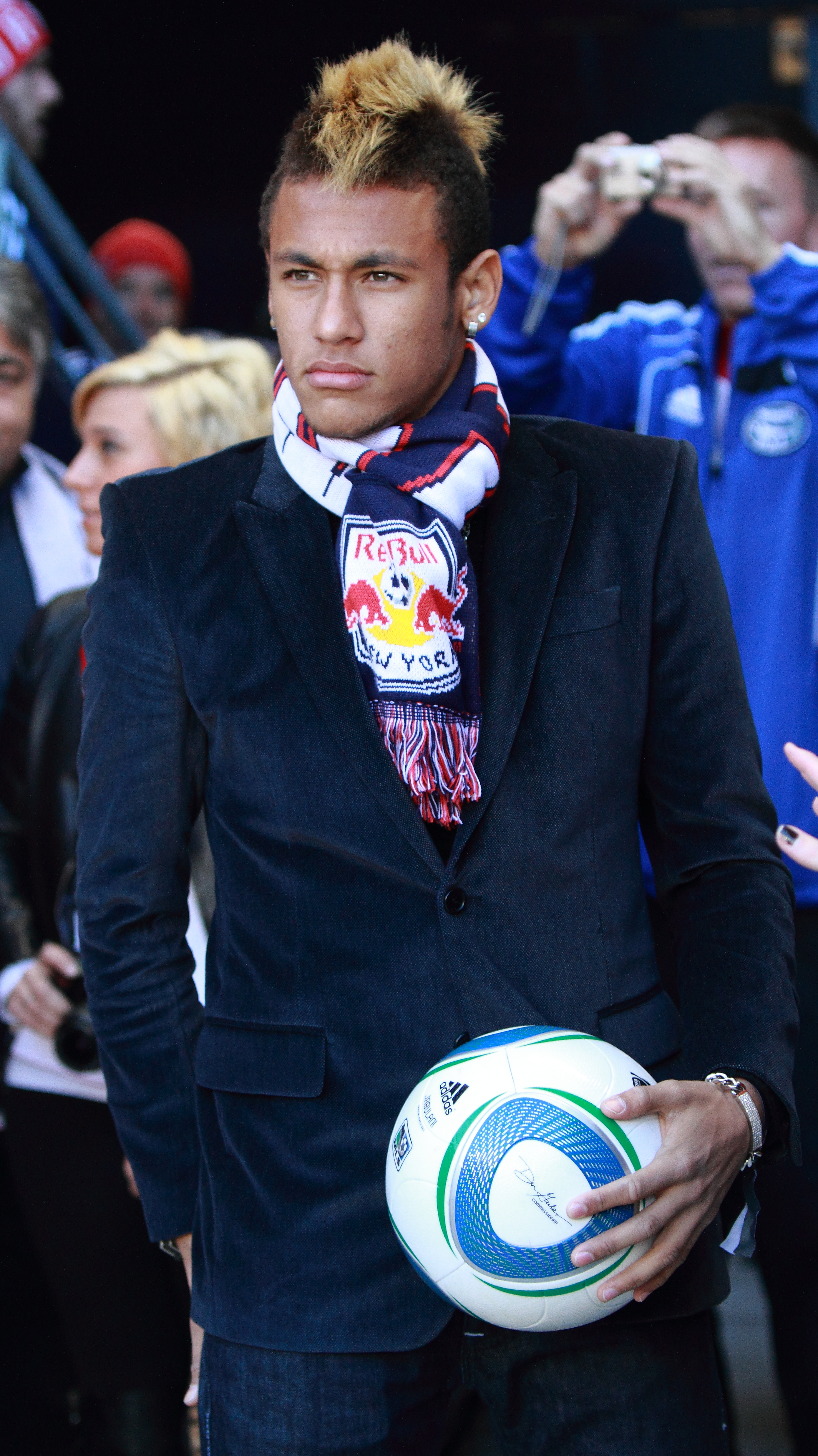 Brazilian footballer Neymar at Red Bull Arena in Harrison, New Jersey to watch a Major League Soccer match between New York Red Bulls and Los Angeles Galaxy.